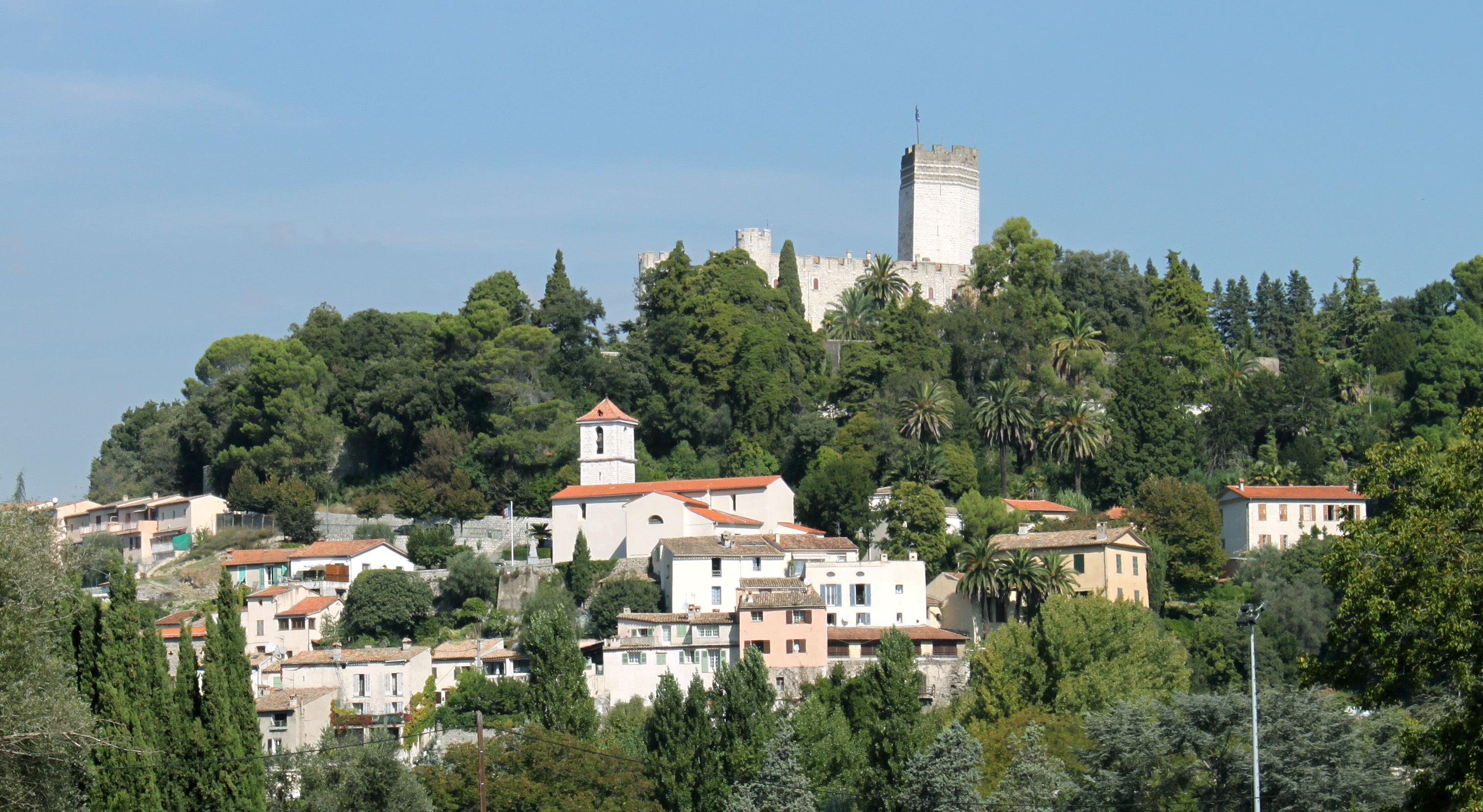 Villeneuve-Loubet village, Alpes-Maritimes, France